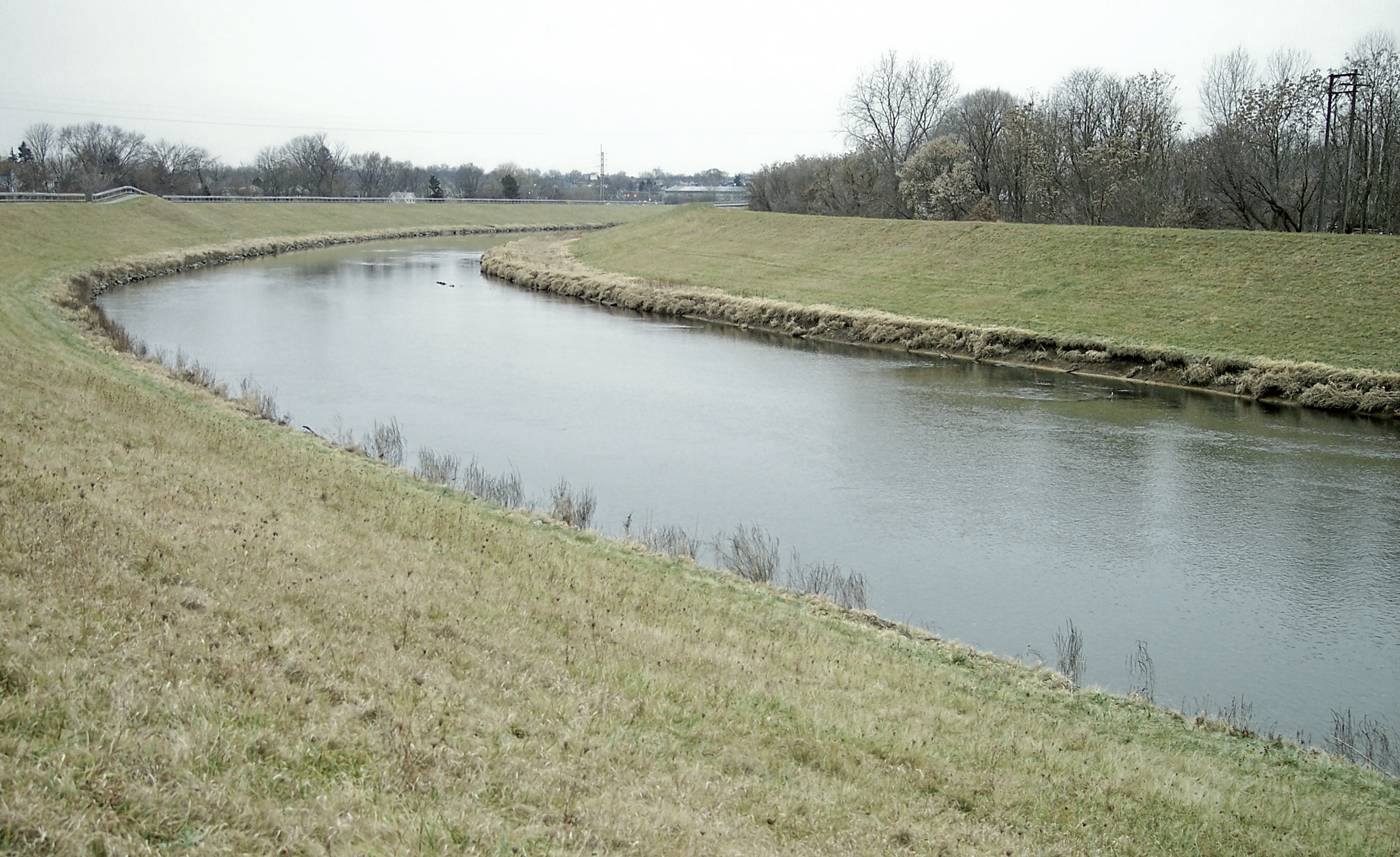 The Tuscarawas River, looking downstream, from south of Lake Avenue, along the towpath of the Ohio and Erie Canal in Massillon, Ohio